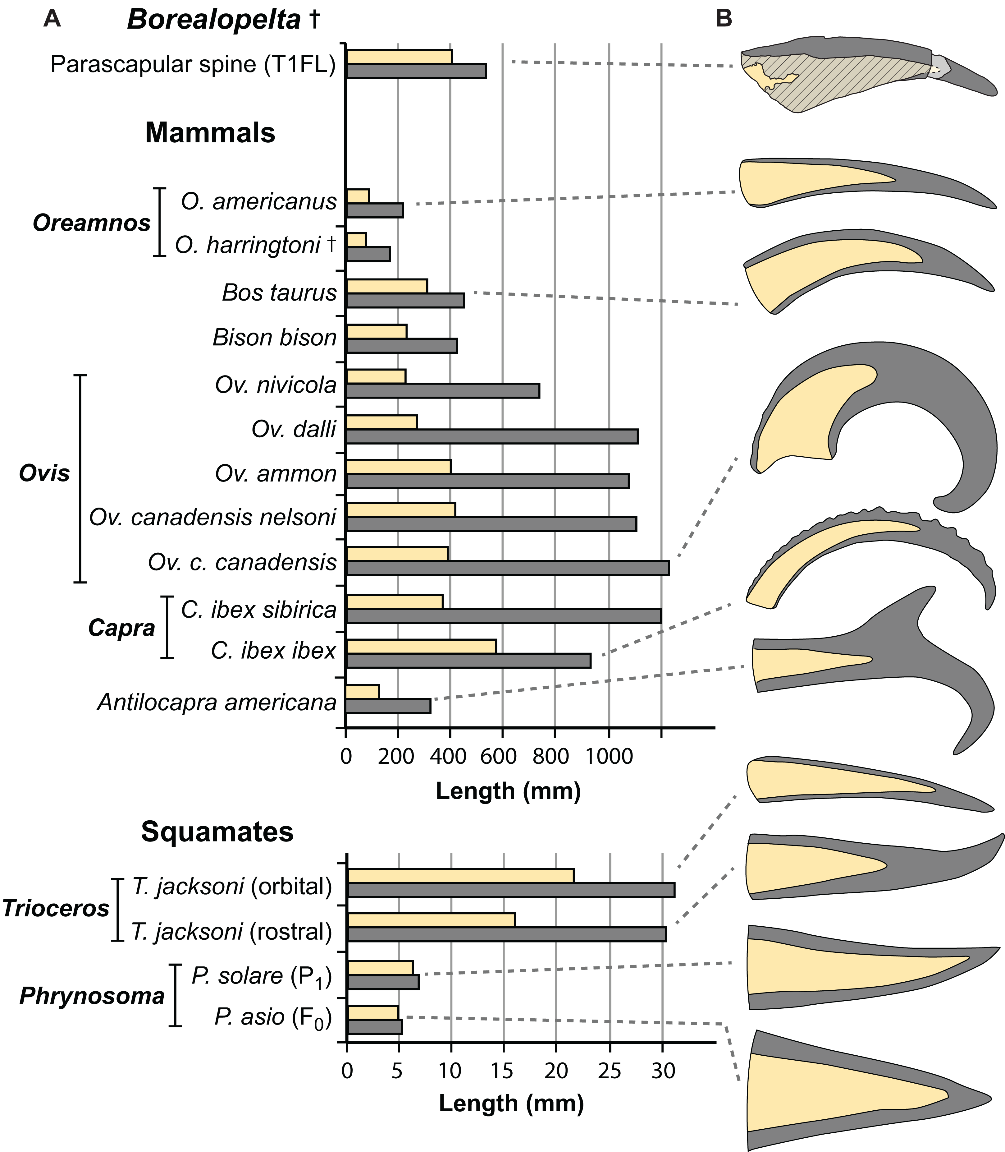 Comparisons of the size of the bony core and keratinous sheath of the parascapular spine of Borealopelta to modern bovid and squamate analogues. (A) Absolute size of the bone core (horncore or osteoderm) (yellow) and the overlying keratinous/horn sheath (grey) for the parascapular spine of TMP 2011.033.0001 (top) as well as averages for several bovid and squamate taxa (lower). (B) Schematic representations of the relative bony and keratinous components of select spines/horns (adjusted to same size). Data for Oreamnos americanus (n = 6, 20) and Oreamnos harringtoni (n = 10, 13) from Mead & Lawler (1995), Bos (n = 18) from Grigson (1975), Antilocapra (n = 3) and Bison (n = 18) from Borkovic (2013), Ovis nivicola (n = 2), Ovis dalli (n = 2), Ovis ammon (n = 2), Ovis canadensis nelsoni (n = 5), Ovis canadensis canadensis (n = 8), Capra ibex sibirica (n = 4) and Capra ibex ibex (n = 5) from Bubenik (1990), Trioceros (n = 1) from TMP 1990.007.0350, Phrynosoma solare (n = 1) from LACM 123351, and P. asio (n = 1) from WLH 1093.